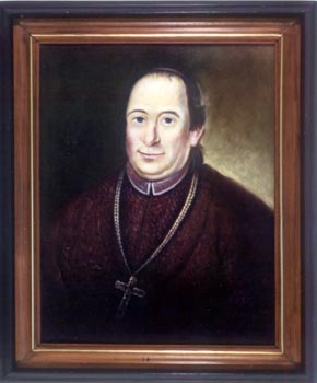 A portrait of Archbishop Basilio Sancho de Santa Justa (1728 - 1787). Basilio Sancho de Santa Justa was archbishop of Manila from 1766 untill his death in 1787.